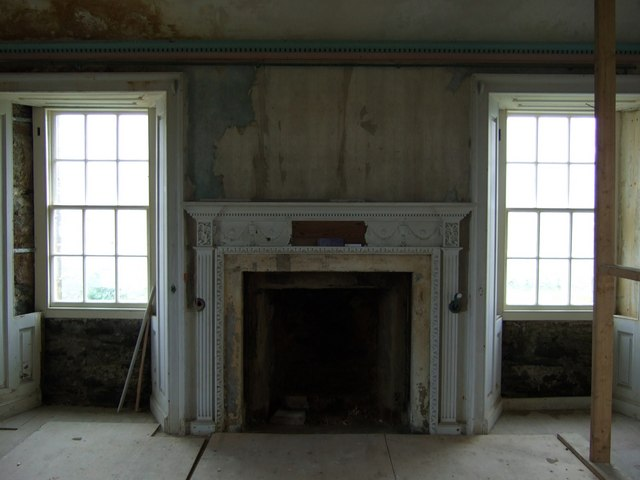 Belmont House This is the Georgian Fireplace in the upstairs Drawing Room. This will be restored to its original condition.